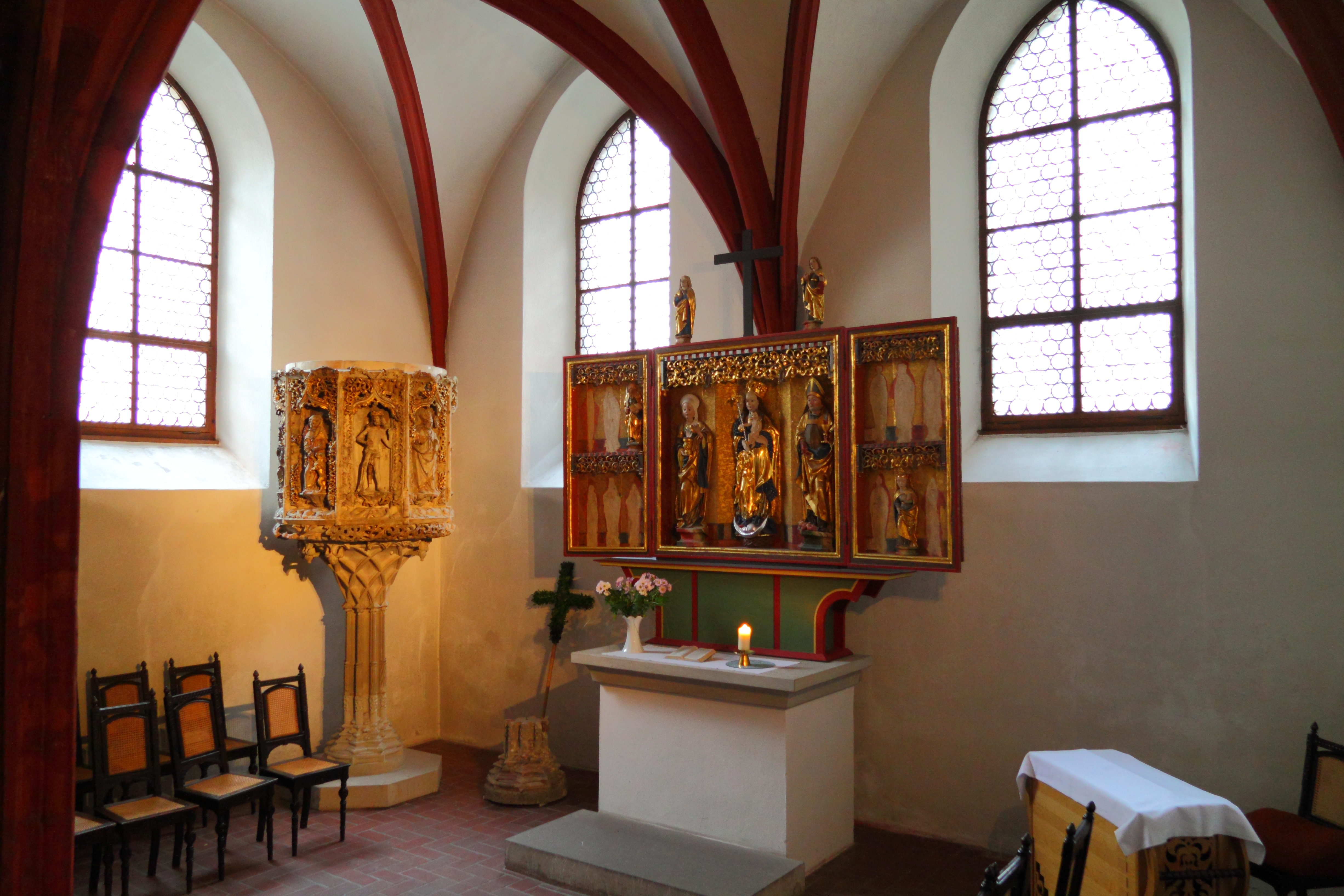 The north chapel of St. Nicholas with the Luther pulpit (1521) and the Niedergräfenhainer altar (around 1510).